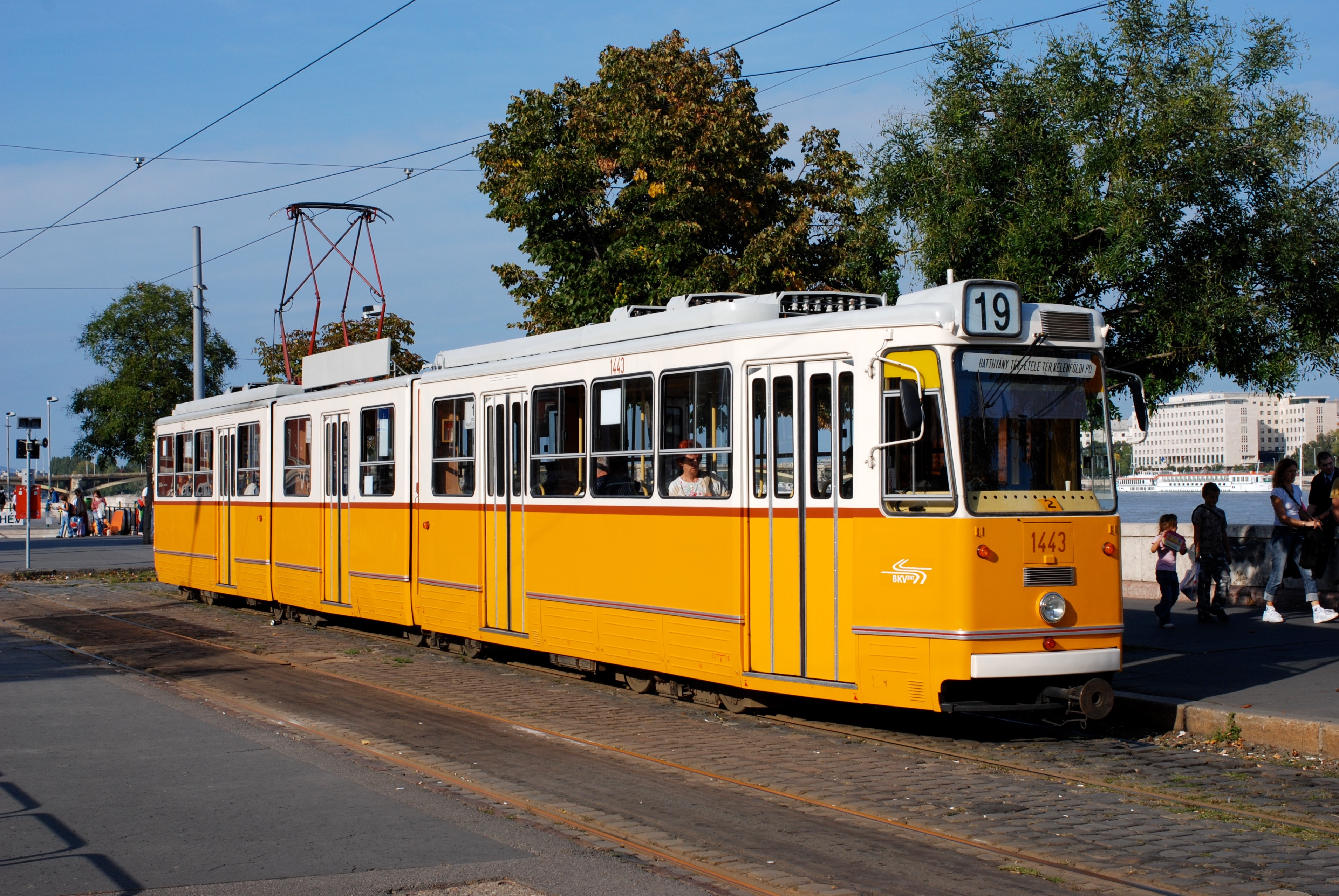 Budapest articulated tram 1443 laying over at the Batthyány tér terminus of route 19 in 2007. Car 1443 is a type-CSMG2 and was built by Ganz in 1975 or late 1974.